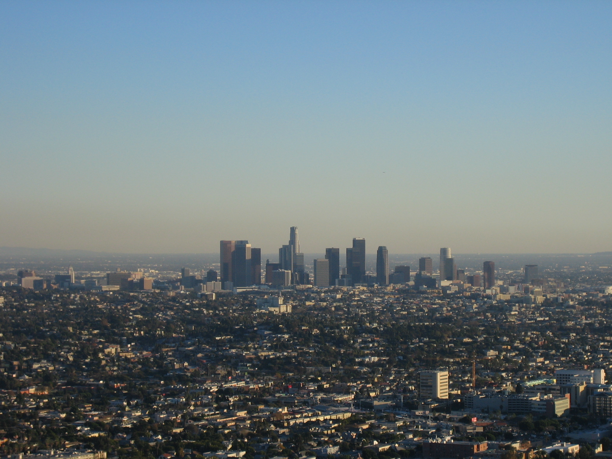 A view of Downtown Los Angeles, California from Griffith Observatory